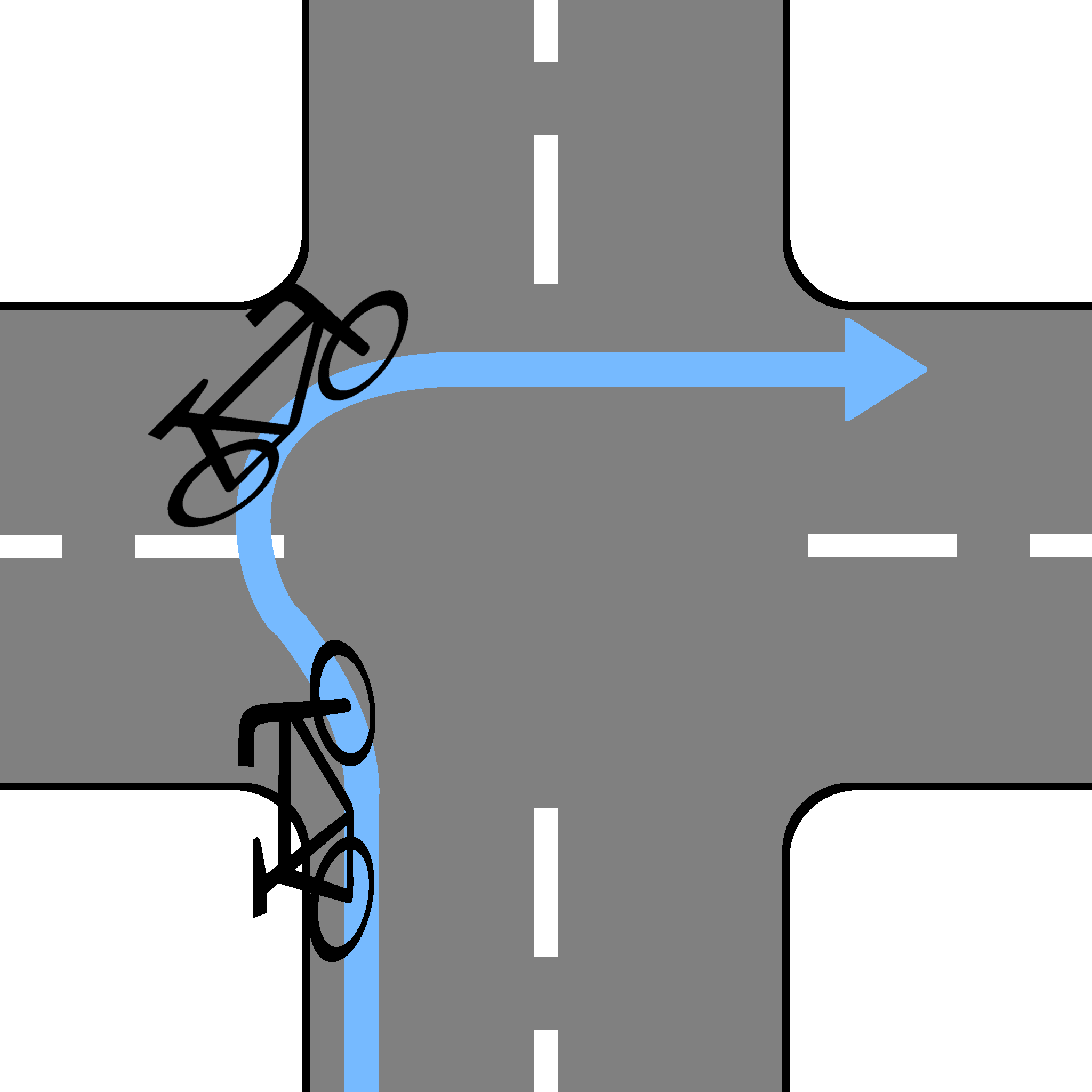 Hook turn bicycle made from File:Hook turn layered.xcf. Bicycle is file:Sinnbild Radfahrer, StVO 1992.svg